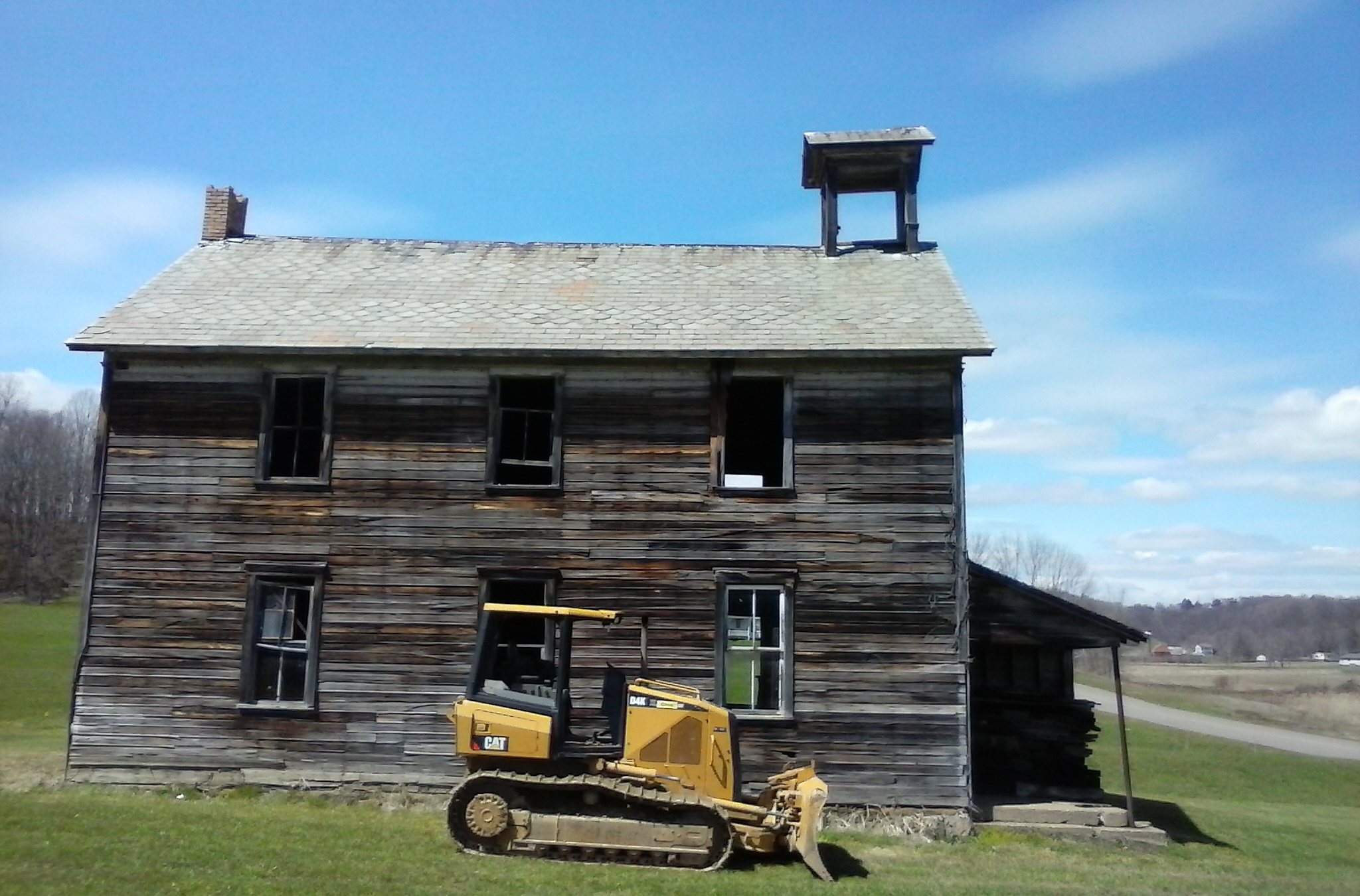 An old schoolhouse in Ohio and Cat D4K XL